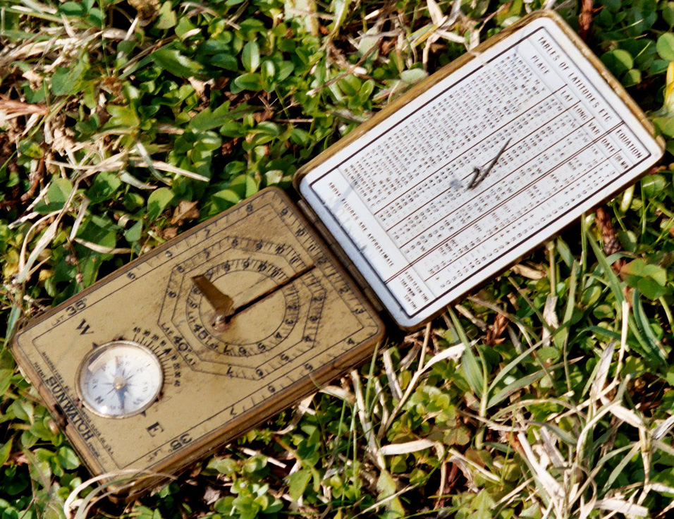 This is a devise for finding the time of day from the position of the sun. The built in compass allows one to set it at the right angle for the shadow of the shaft to fall on the correct hour marking. It was made at a time near the beginning of the 20th century when devices for keeping time were much more expensive and less practical than they are in the 21st century. It is about 10 cm. long and less than one cm. thick when closed. The case closes to protect the hinged shaft.